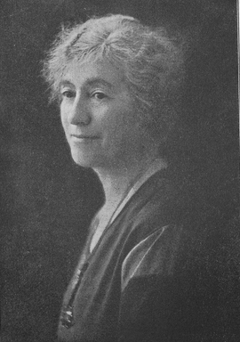 Margaret Cousins, Irish/Indian suffrage leader from a trip to the US in 1932